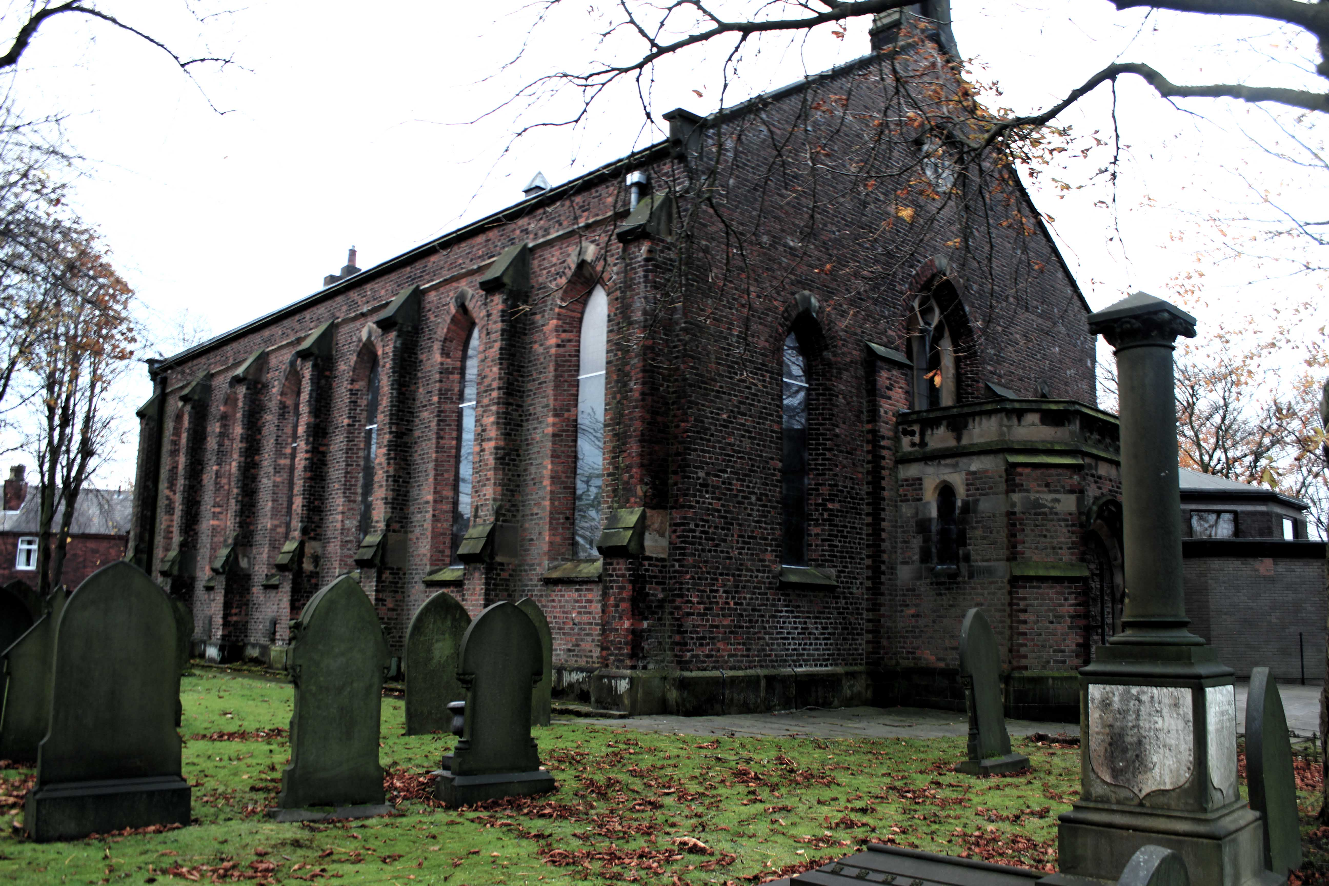 St Georges Church, Unsworth